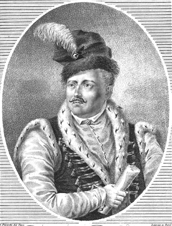 Paweł Jan Działyński